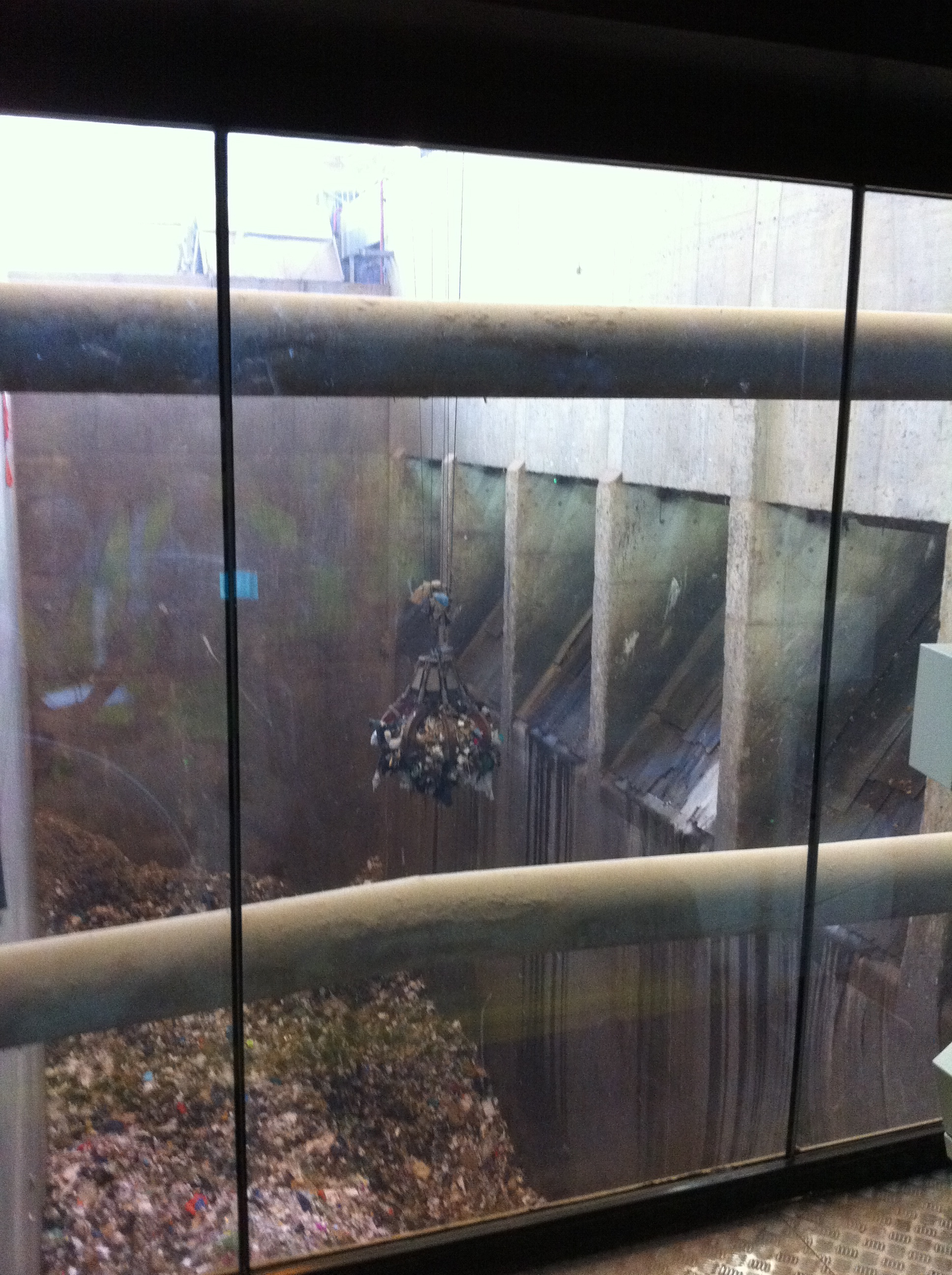 View of Isséane, a modern unit production of renewal energy